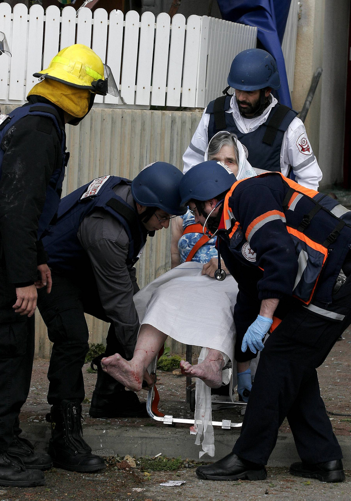 Elderly Israeli woman injured from Hamas Grad rocket fired from Gaza toward civilian area in Ashkelon, a large Southern Israeli city.